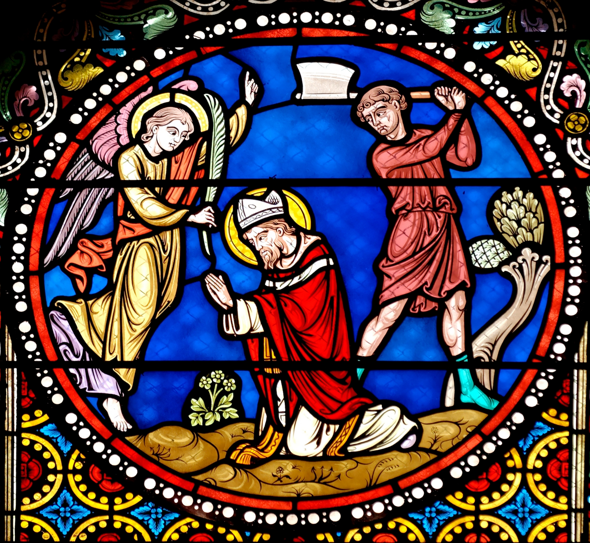 Scenes from the life of St. Austremonius: his martyrdom. Top panel of a stained glass window from an apsidal chapel of the church Saint-Austremonius of Issoire, Auvergne, France.